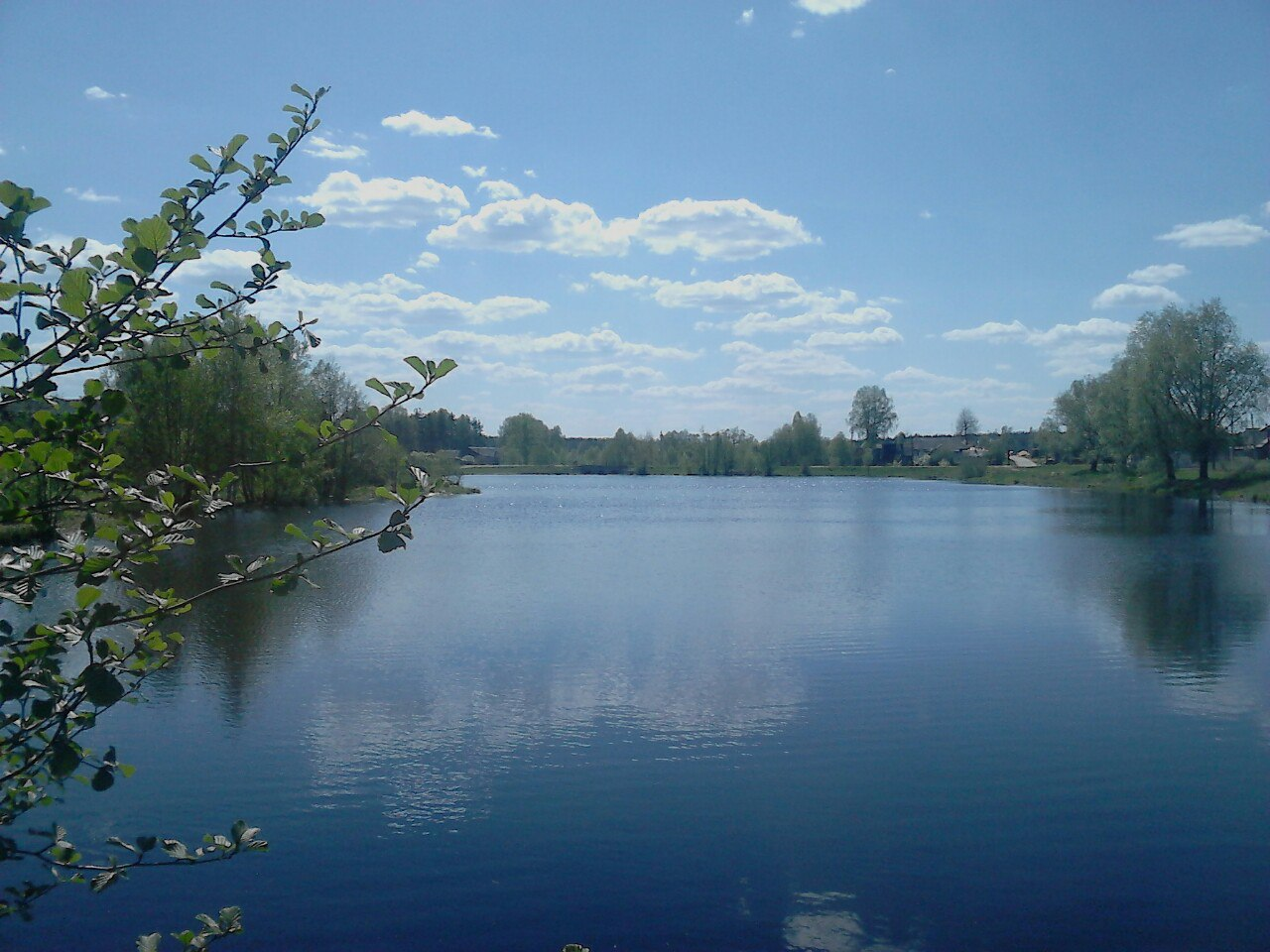 Satis